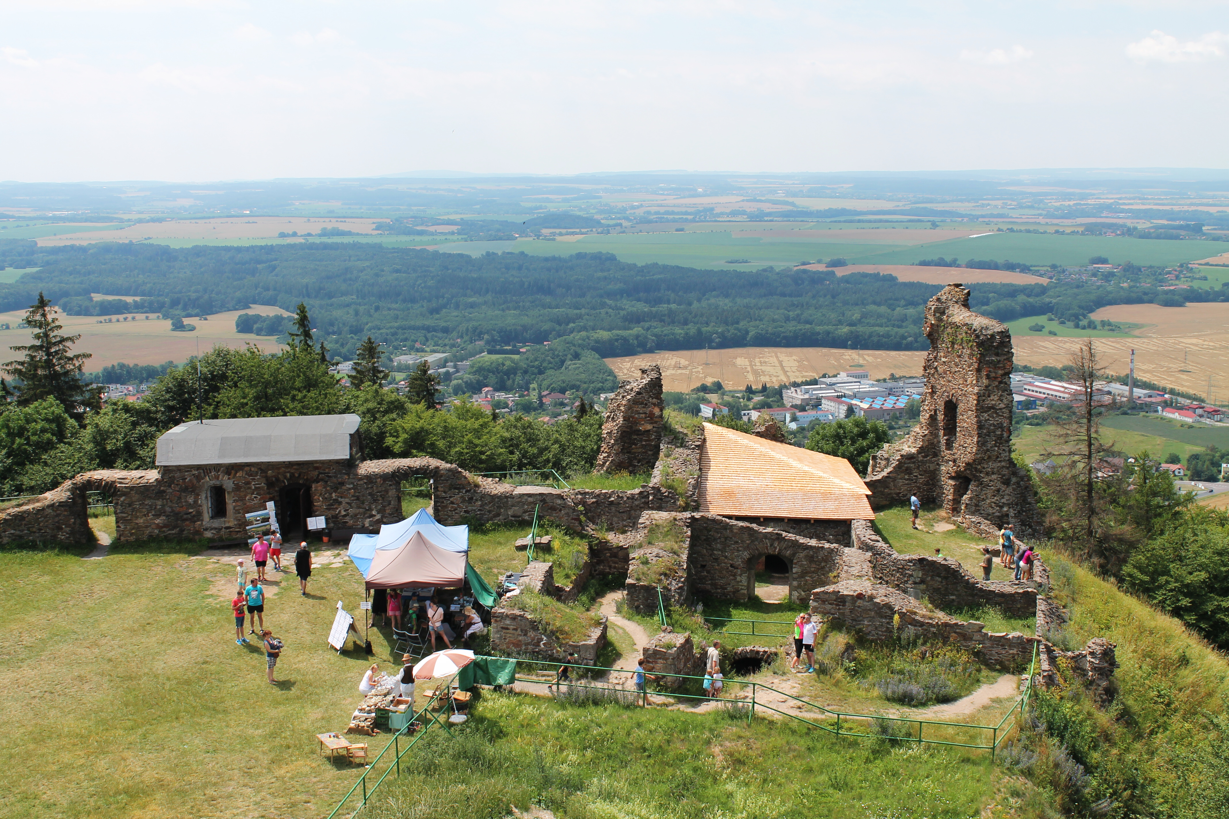 Lichnice Castle, Podhradí, Třemošnice, Chrudim District, Czech Republic